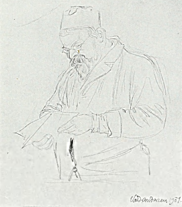 Simon Bernsteen (1850-1920) was a Danish printer − (Biography)